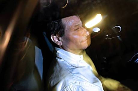 Cesare Battisti released from prison